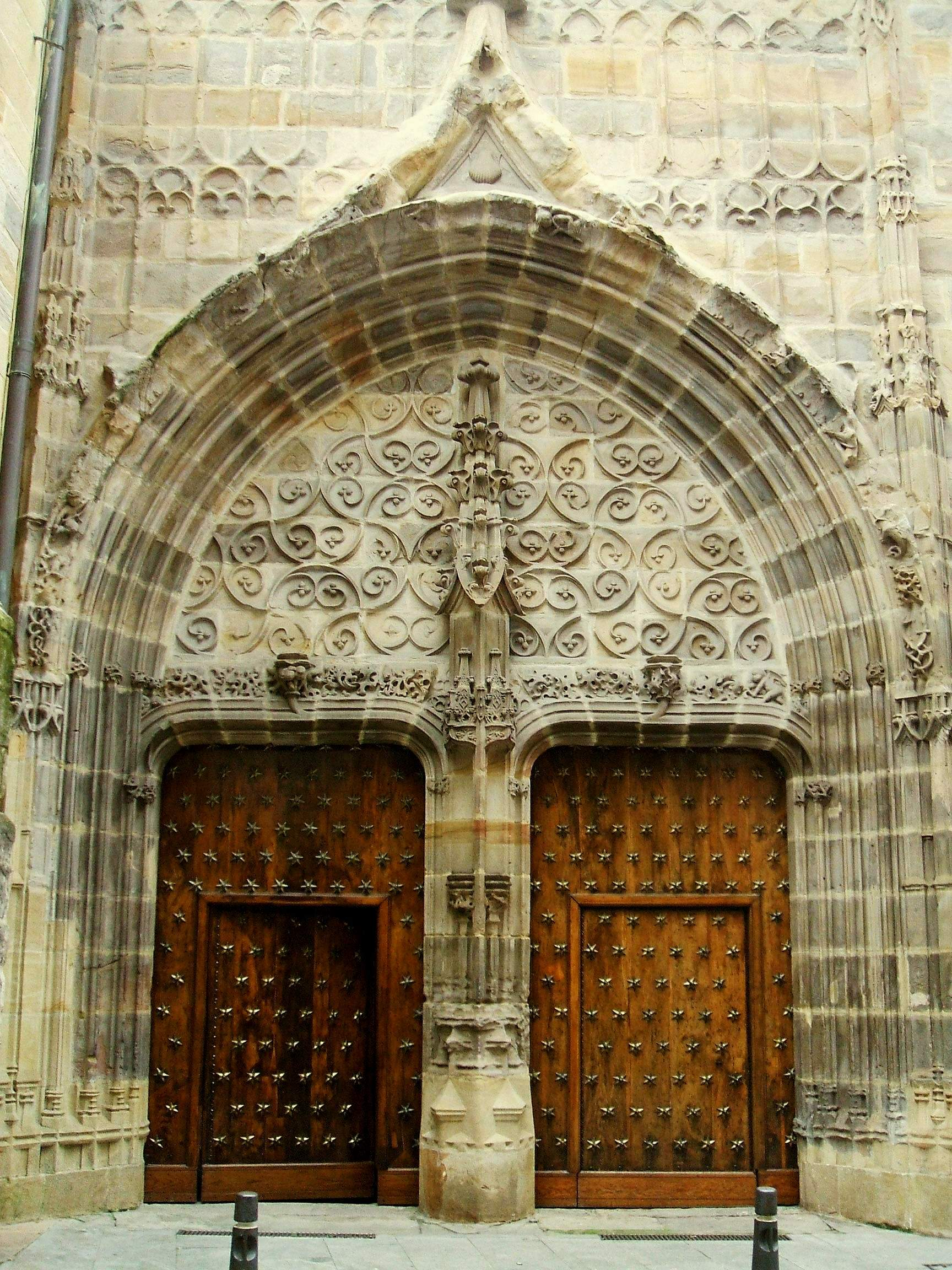 Puerta del Ángel, que da acceso desde la calle al claustro de la Catedral de Santiago de Bilbao, País Vasco, España. Elemento de estilo gótico florido de principios del siglo s-XVI.